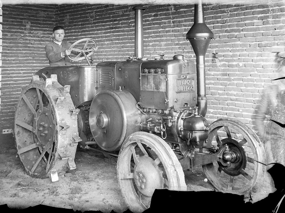 Inv. 820 Utilaje agricole, 1939 The project Costică Acsinte Archive needs help: please donate and share the link igg.me/at/acsinte/x/6146081 DAM by IDimager